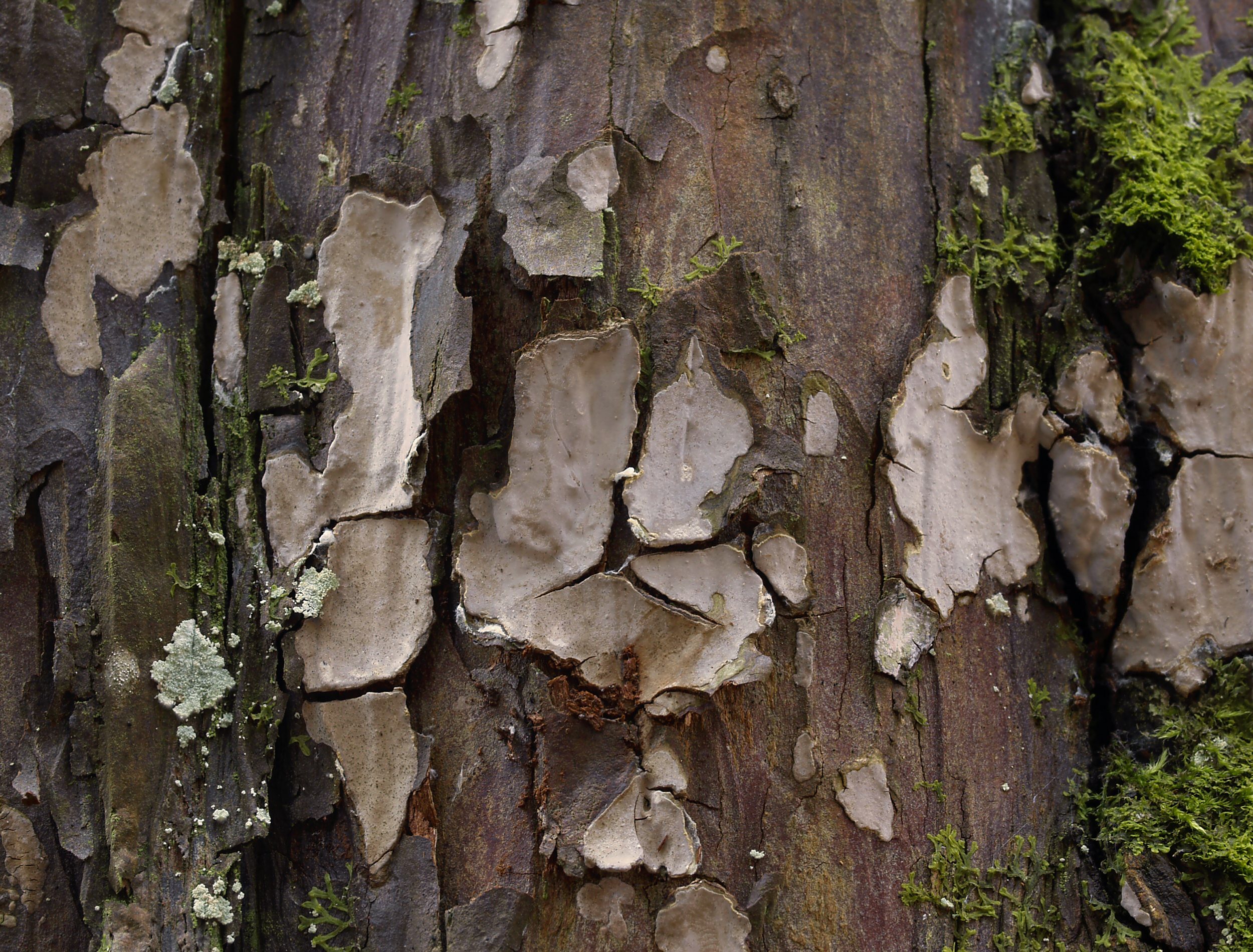 Amylostereum laevigatum on a stock of Taxus baccata